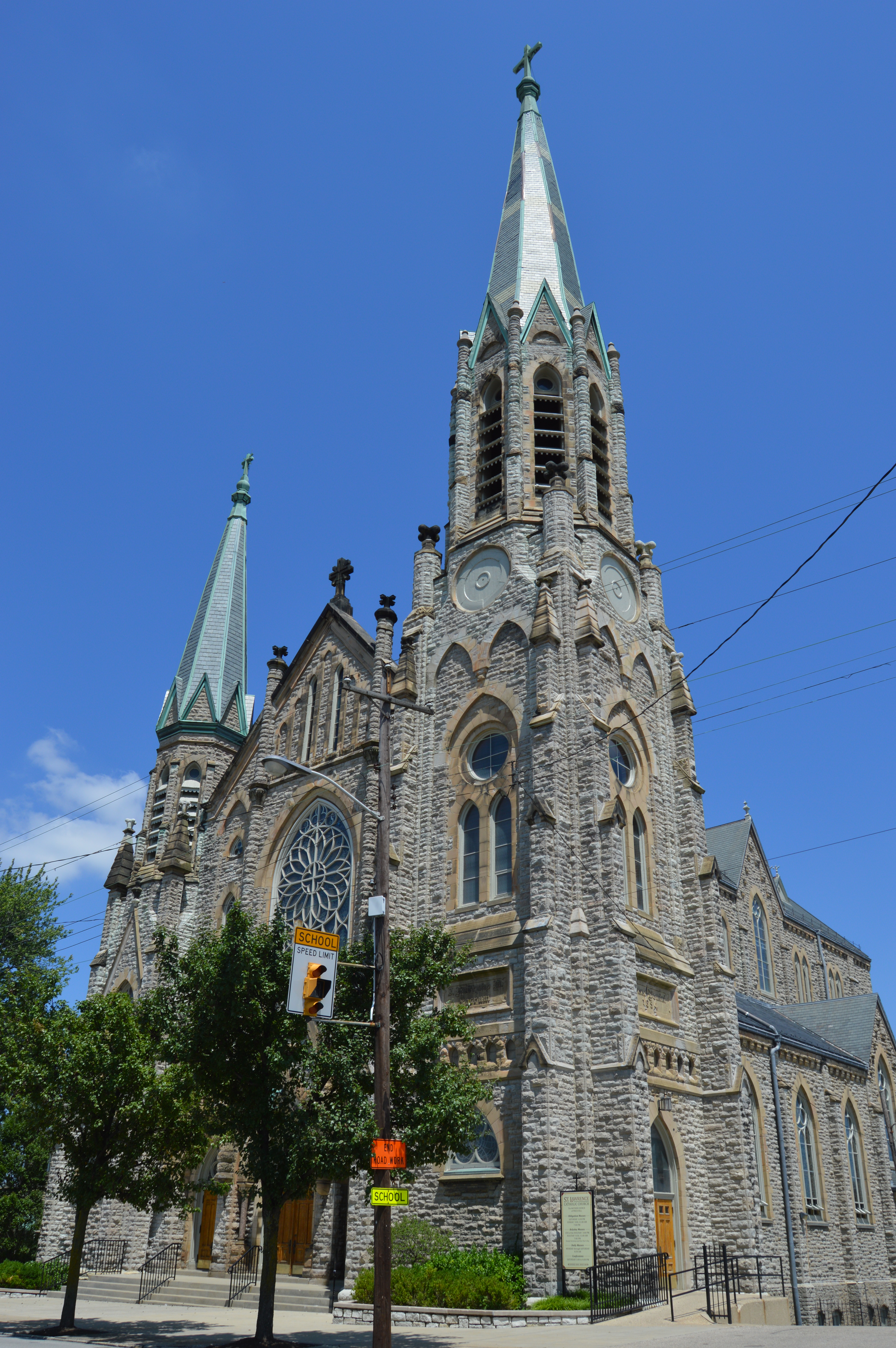 Front and southeastern side of St. Lawrence Catholic Church, located at 3680 Warsaw Avenue in Cincinnati, Ohio, United States.